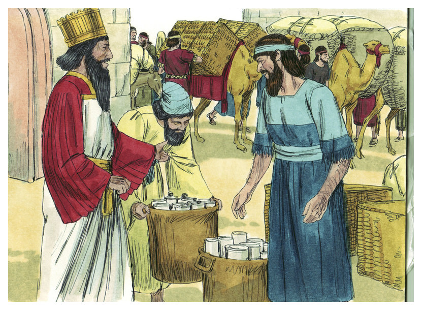 Biblical illustration of Book of Ezra Chapter 1